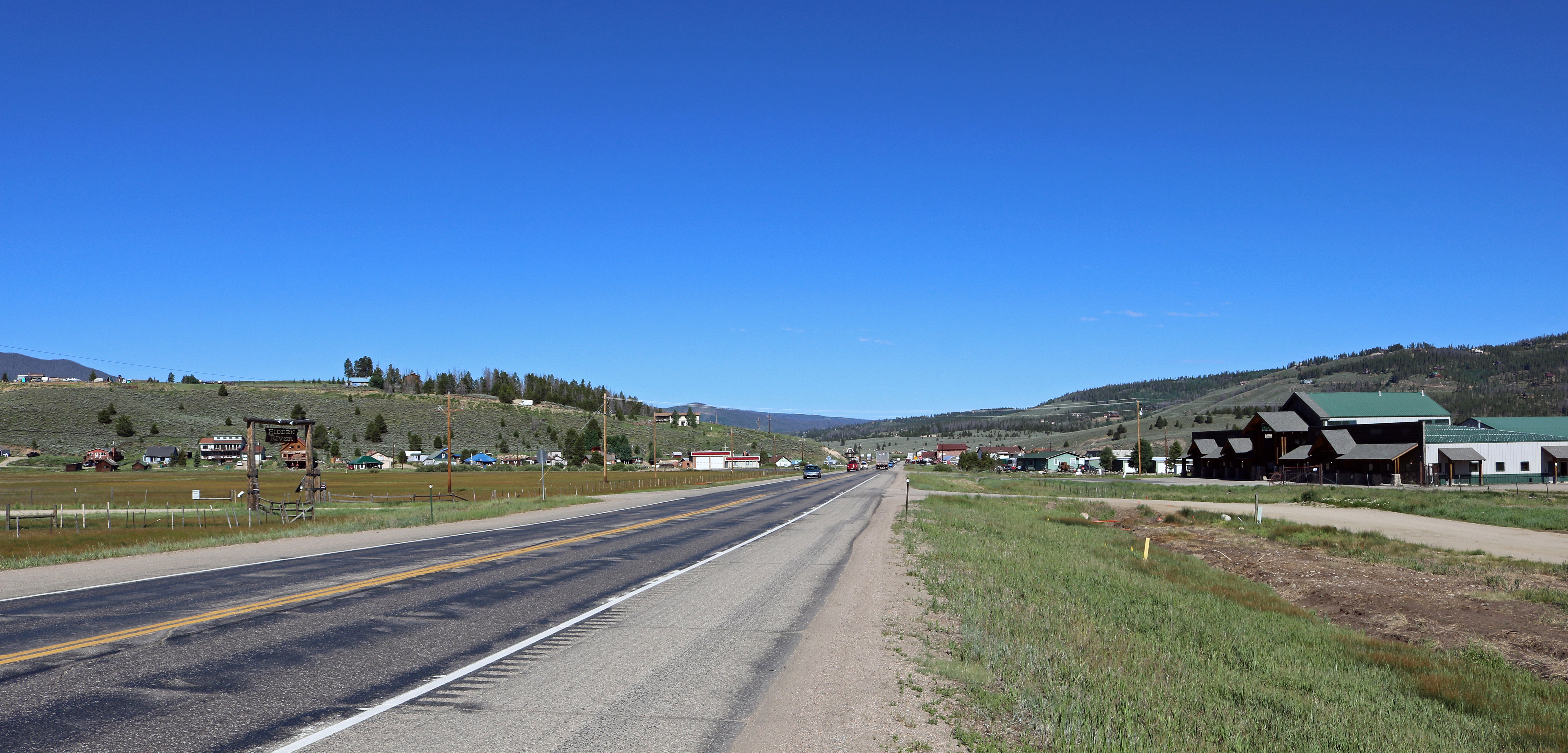 A view of Tabernash, Colorado, in Grand County. The highway is U.S. Route 40.